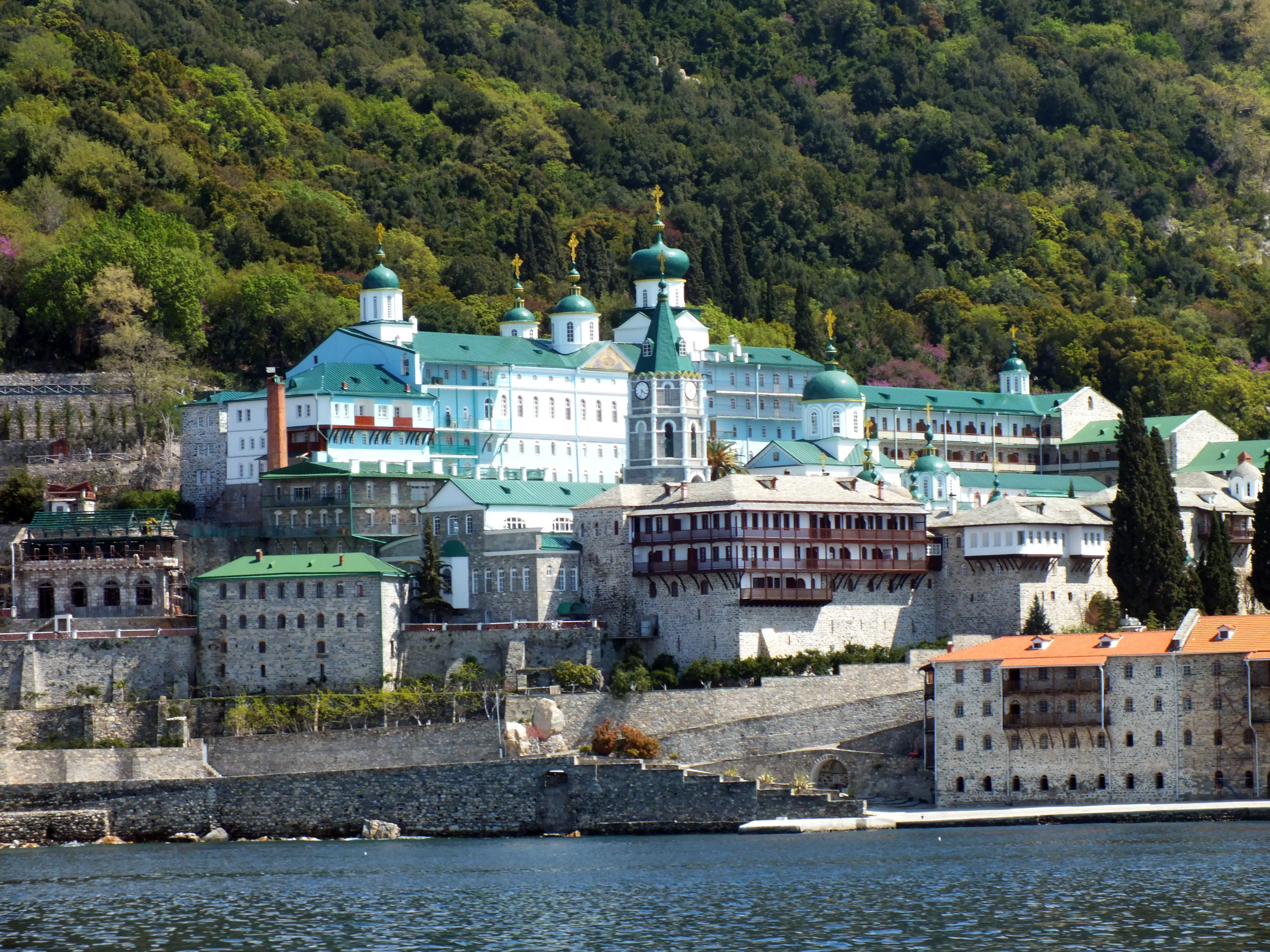 Agiou Panteleimonos monastery, Mount Athos, Greece